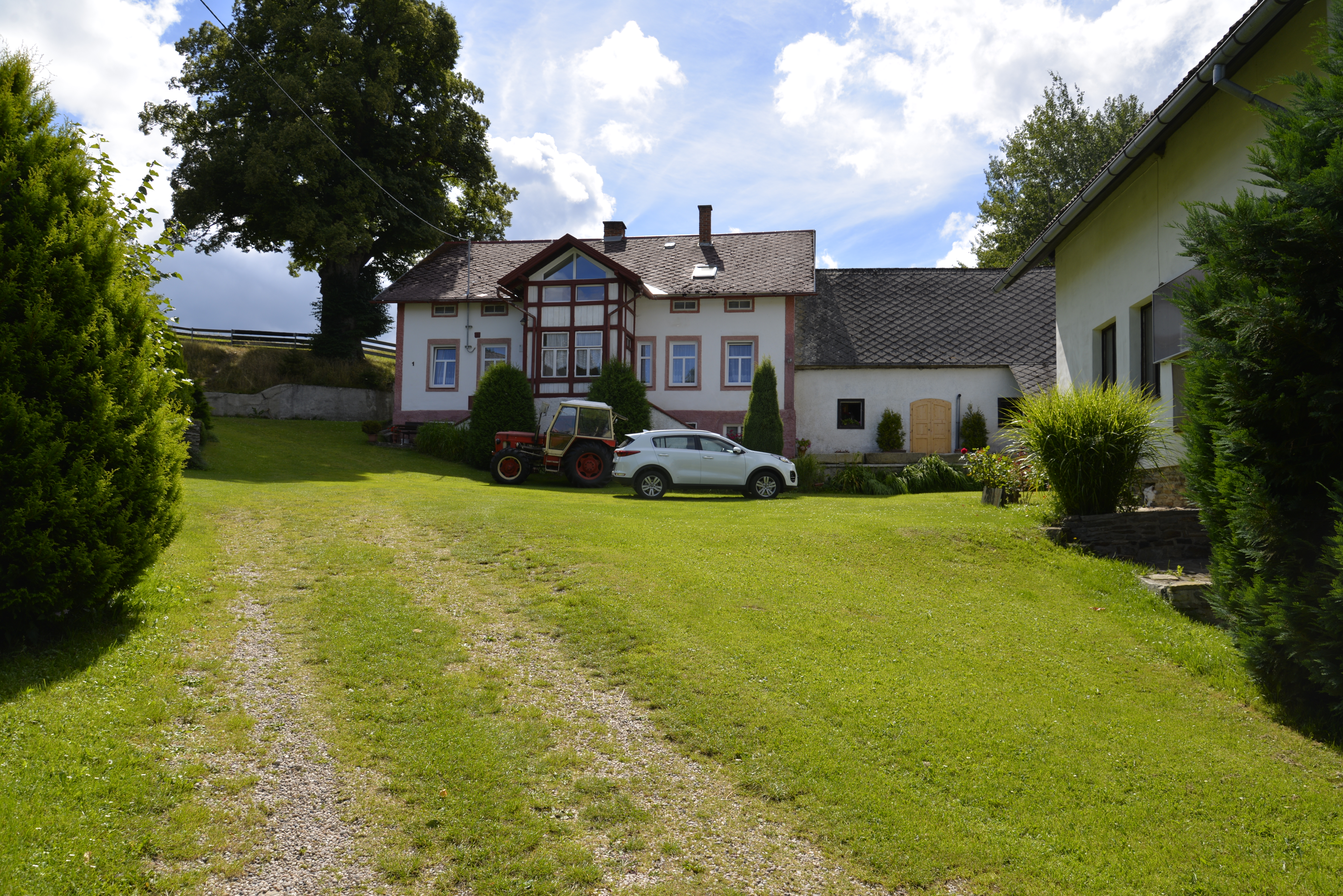 Javoříčko is a small village, part of municipality Hlavňovice in Klatovy District